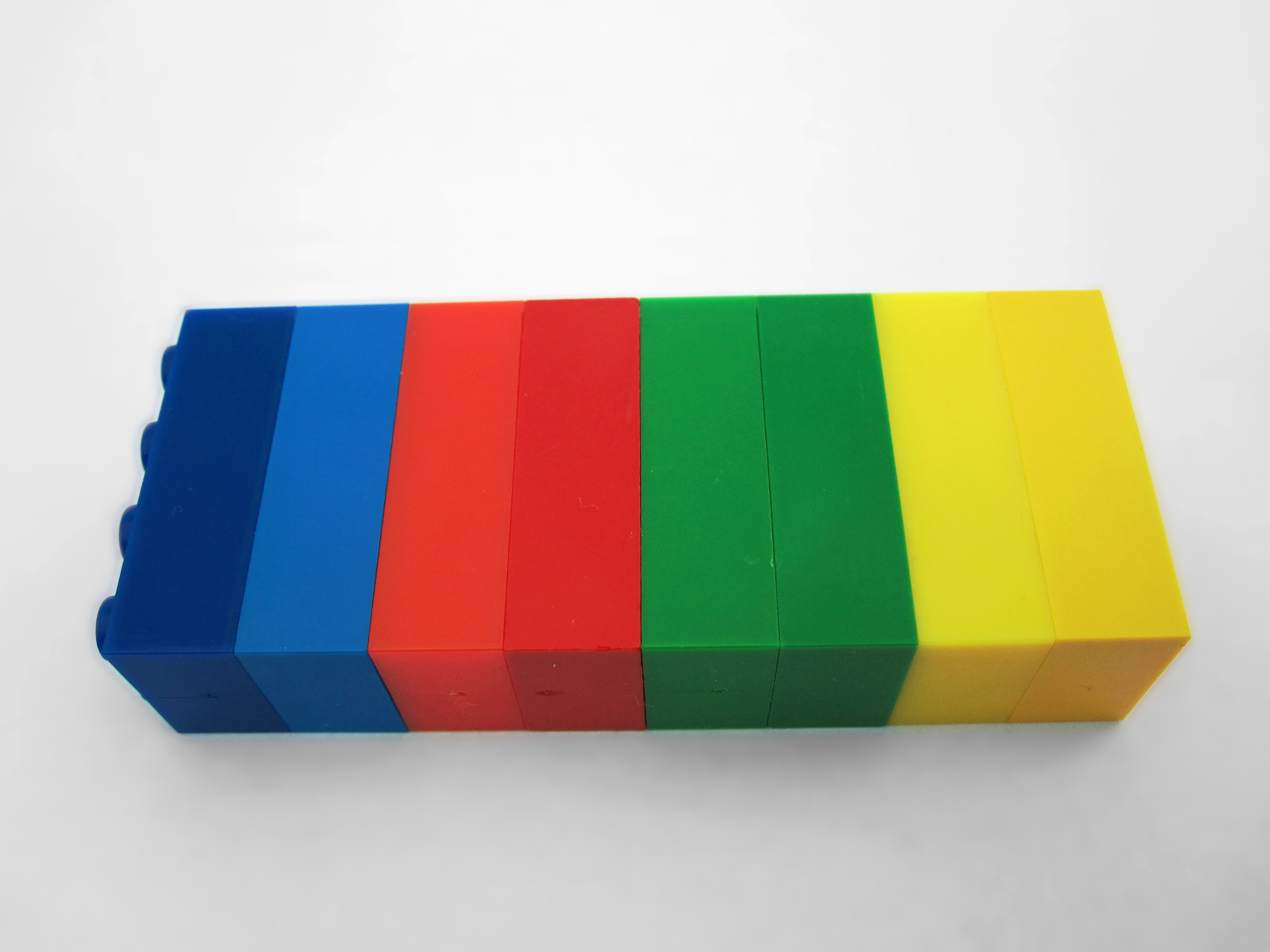 From left, dark blue Best-Lock followed by lighter blue Lego-brick. Following bricks are Best-Lock then Lego-bricks.